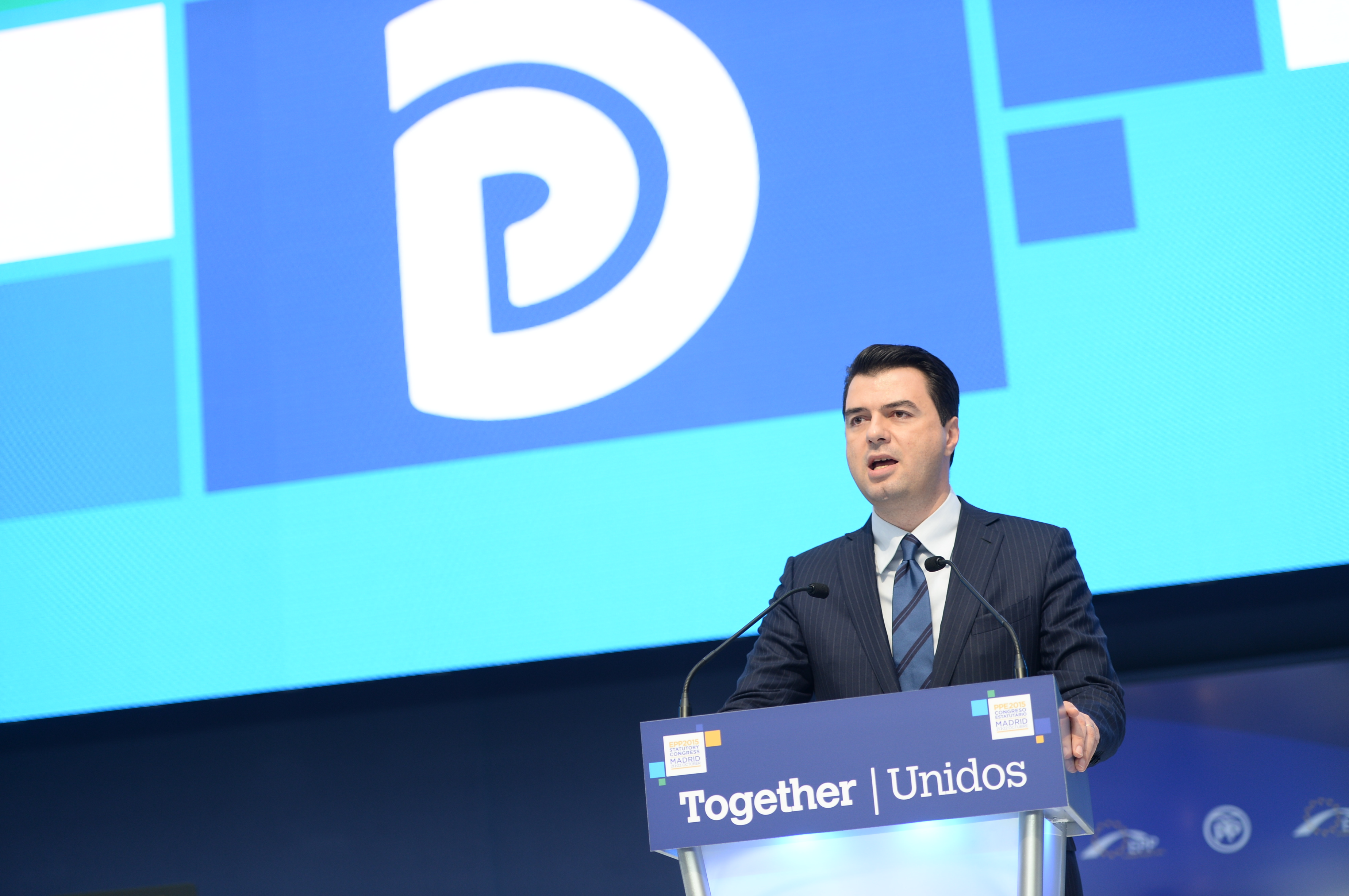 EPP Congress Madrid - 21 October